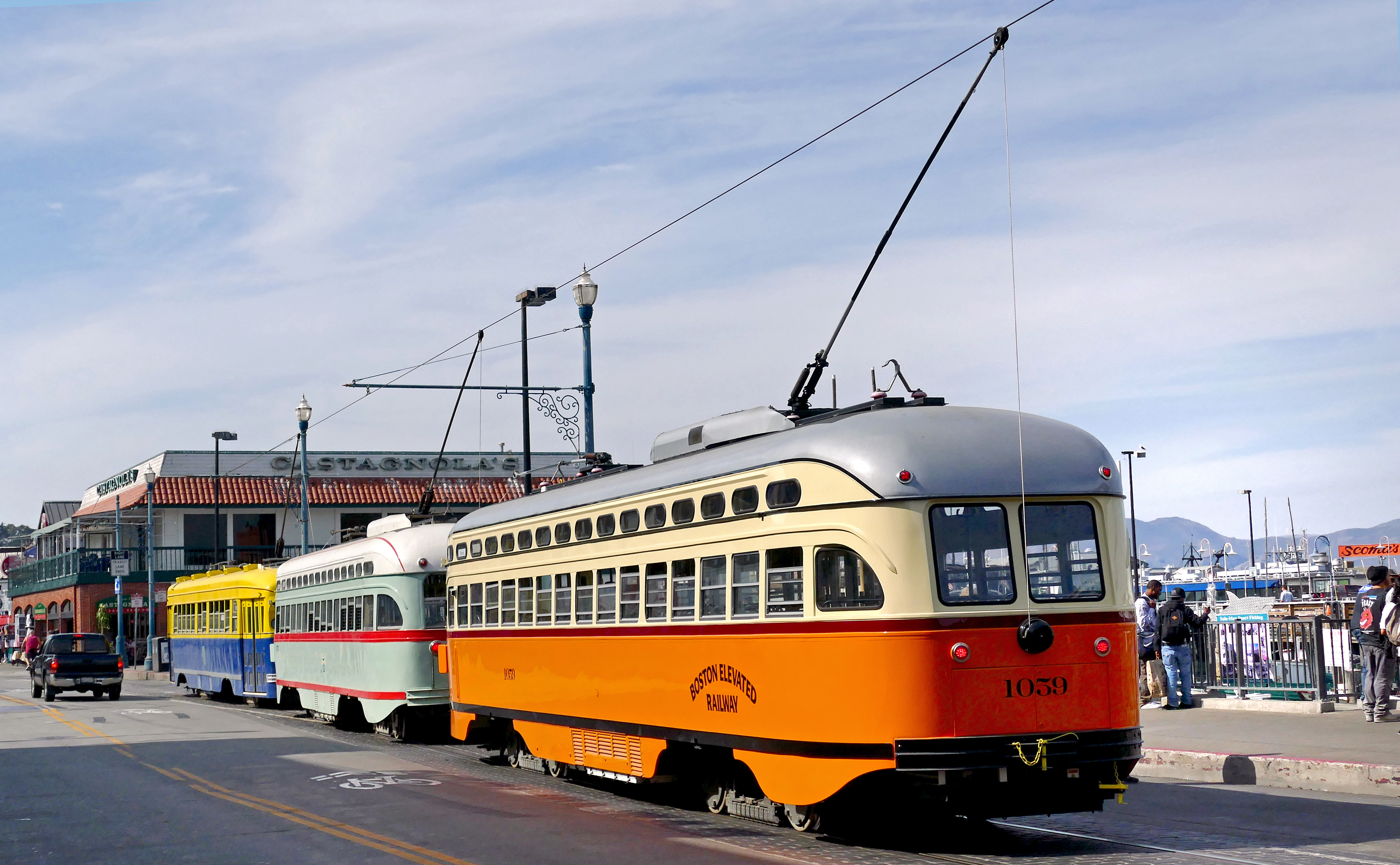 Three PCC streetcars -1010, 1073, and 1059 (left to right) on Jefferson Street in October 2017